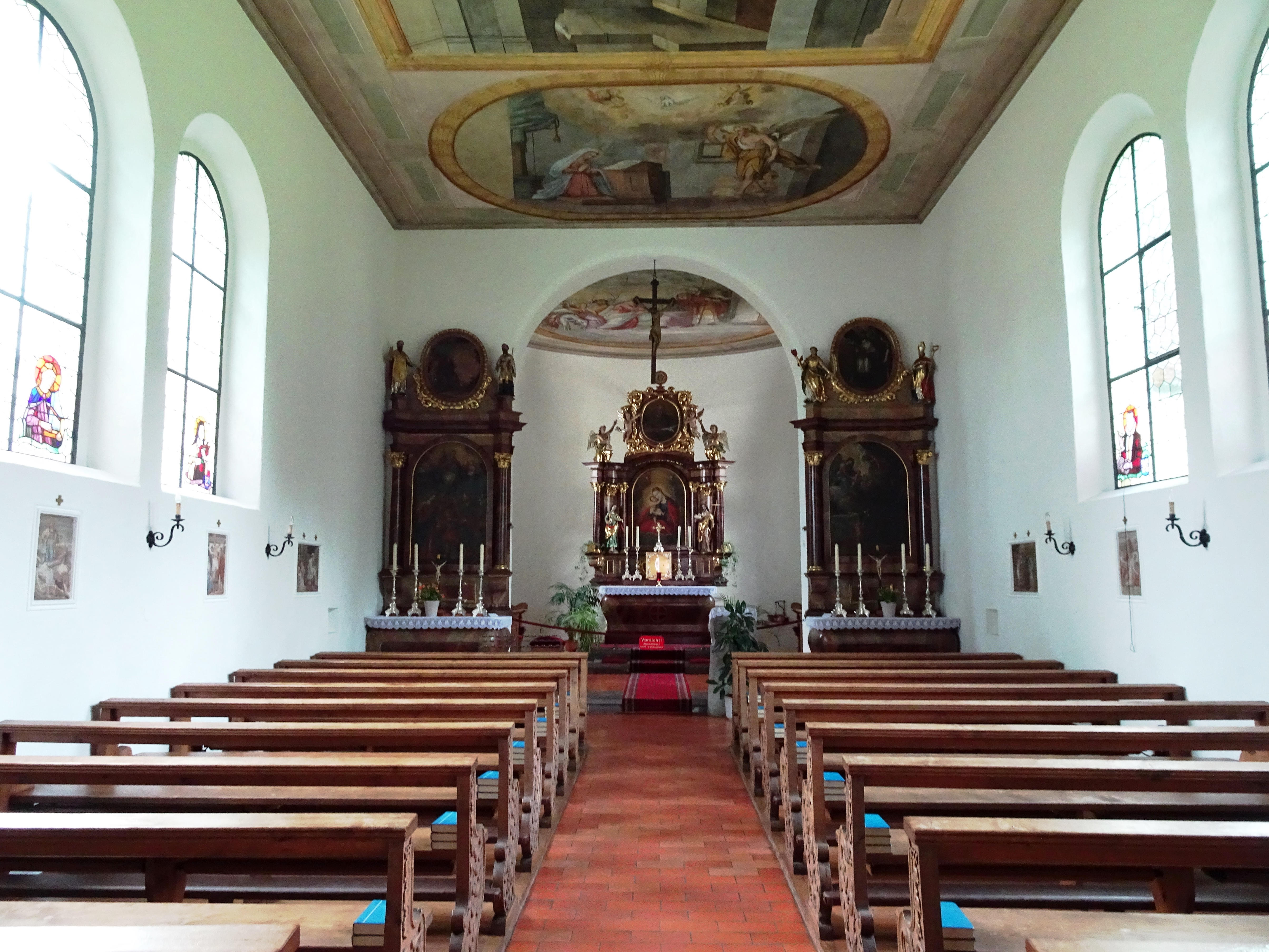 Saint Mary of Help chapel in Balzers, Liechtenstein (inside view)